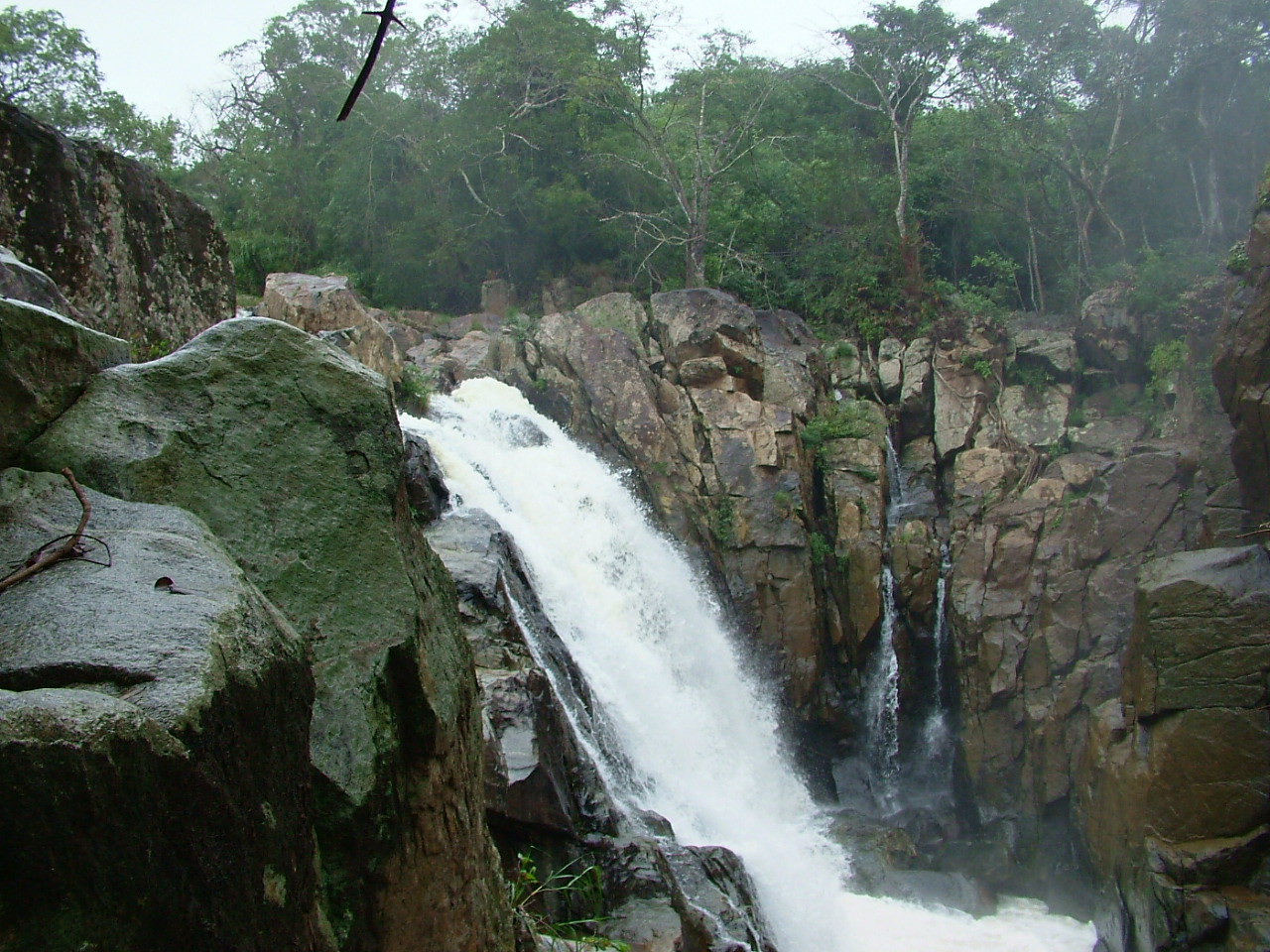 Bay Waterfall in Easo, Daklak, Vietnam